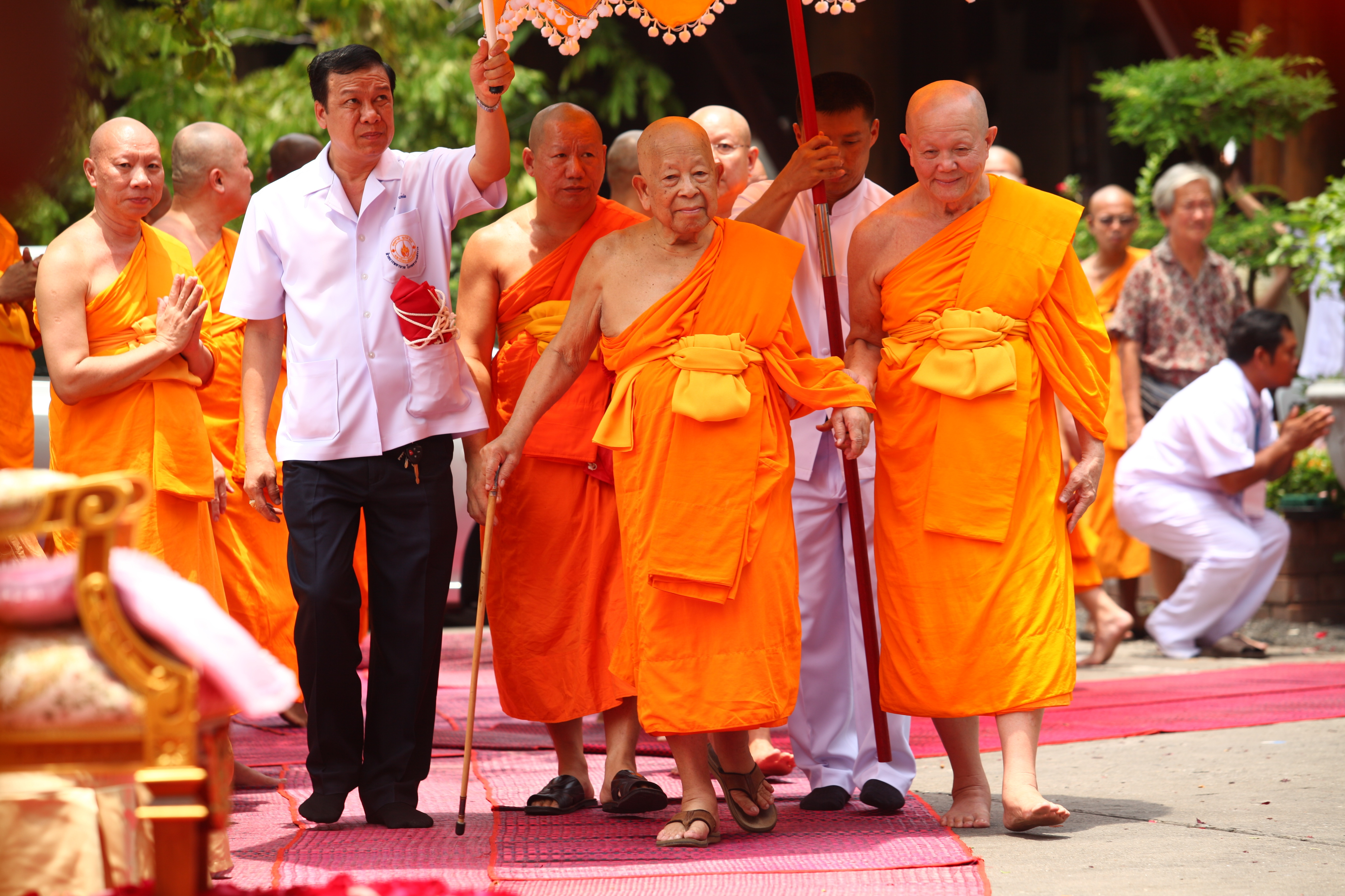 Somdet Chuang Varapunno, as of 2016 the acting Sangharaja of the Thai Sangha